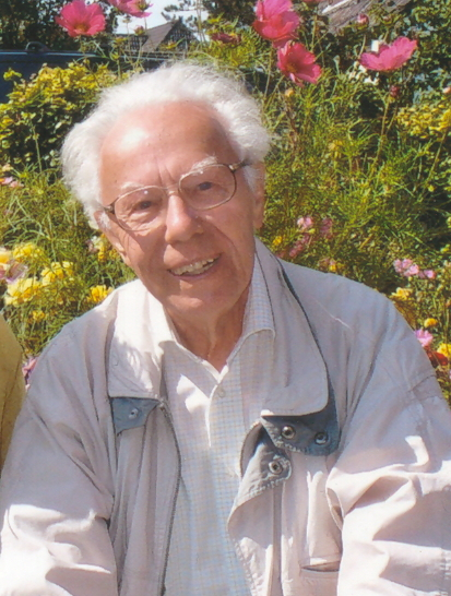 Professor Wolfhart Westendorf in 2007